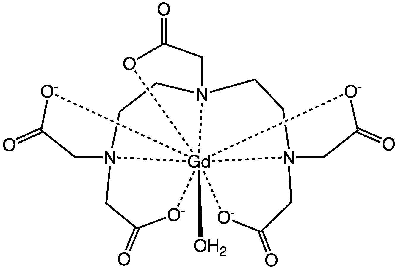 Connectivity of Gd(DTPA)(H2O)]2- from J Mag Res 30, 1240 (2009)